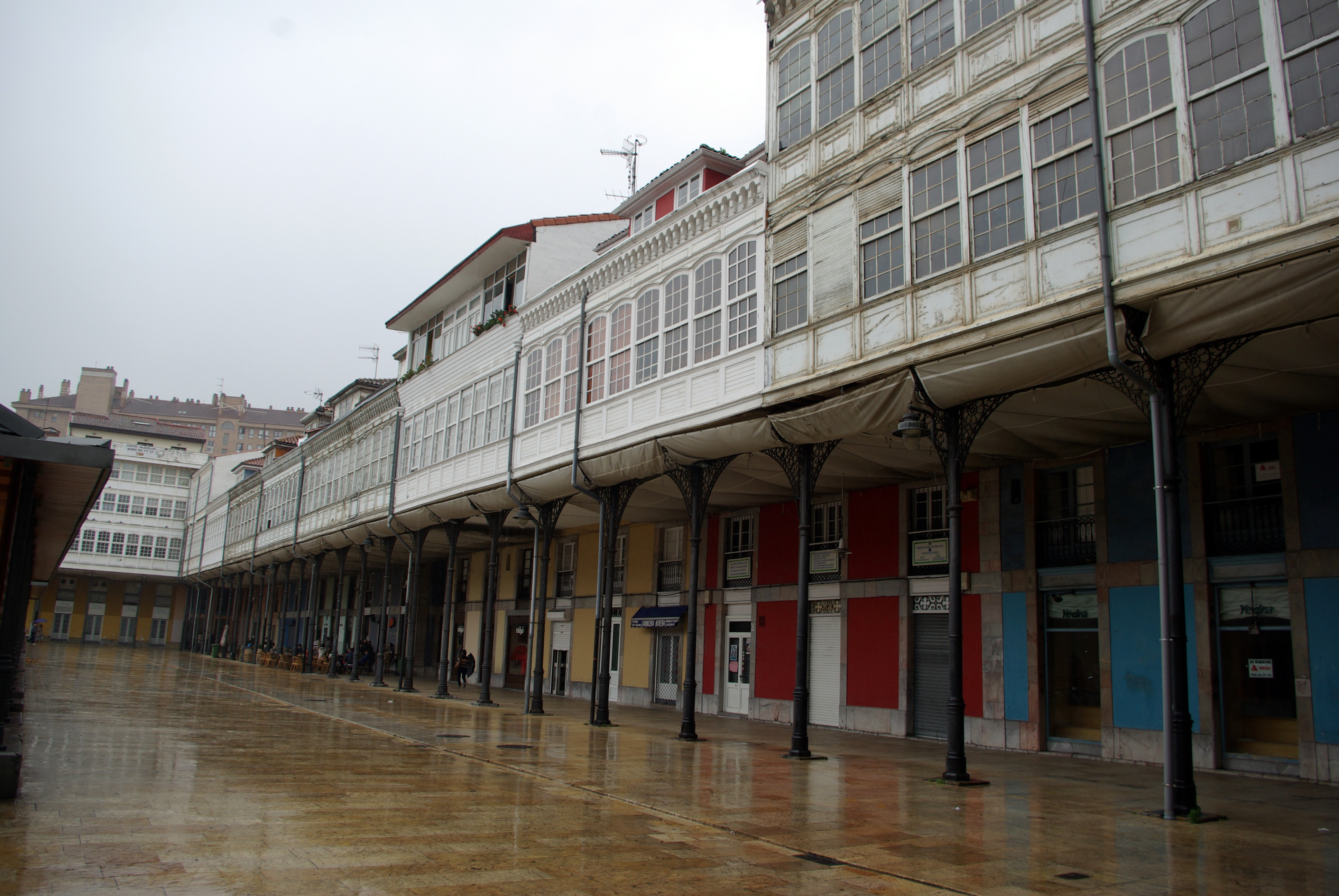 Market Square or Orbón Brothers square Avilés (Asturias Spain).